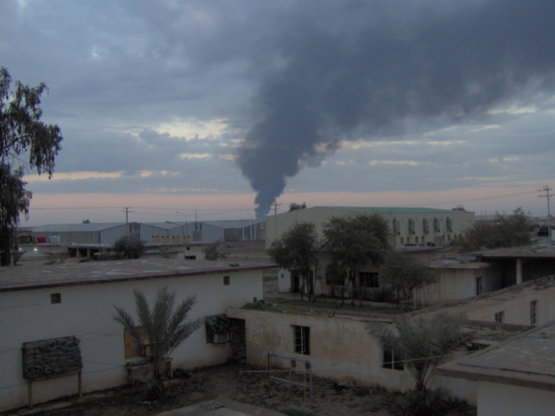 Camp Taji, Iraq